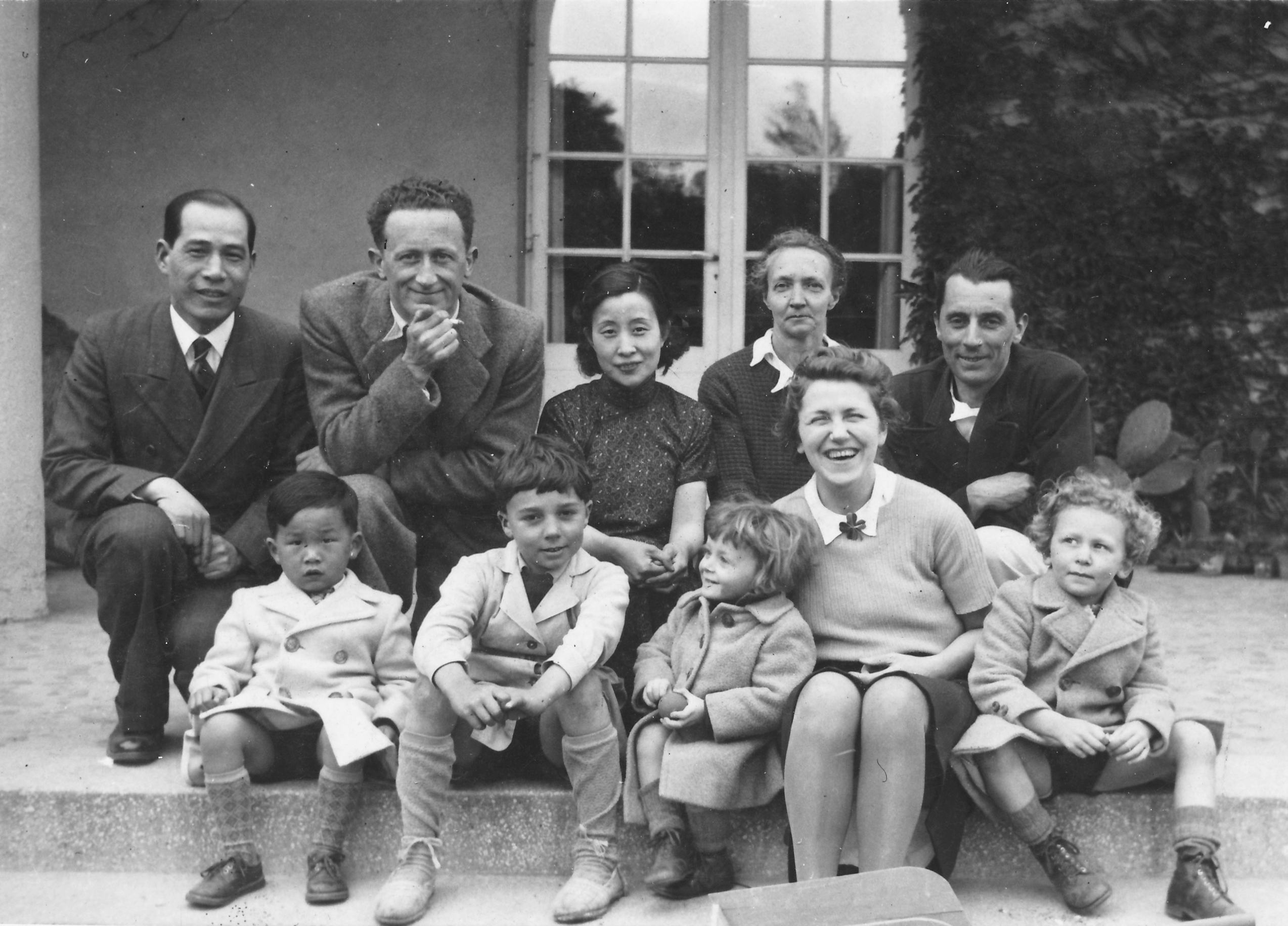 Familles Ouang, Joliot-Curie et Biquard in 1941